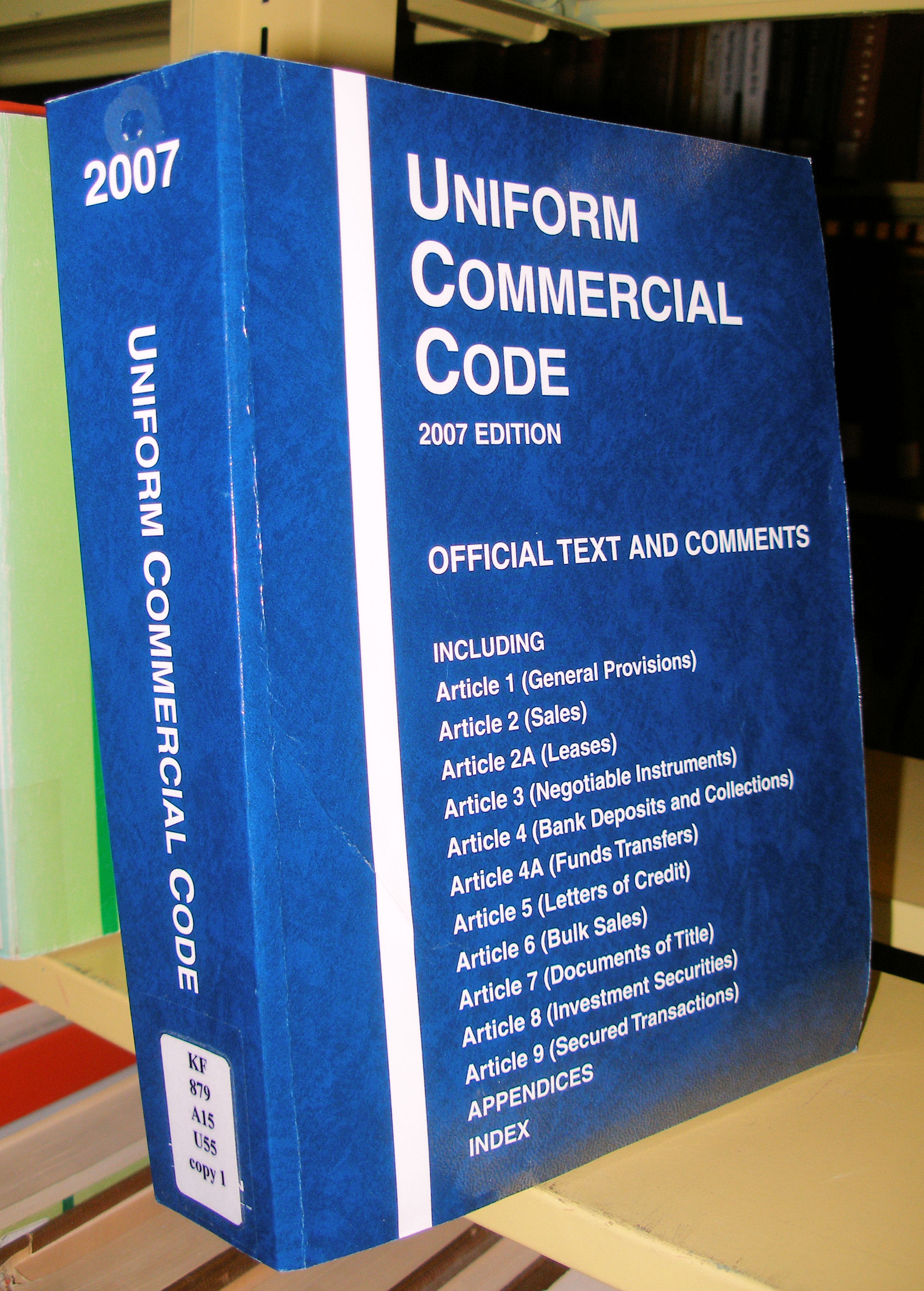 The Uniform Commercial Code, 2007 edition. Photographed at the law library of the UC Berkeley School of Law.